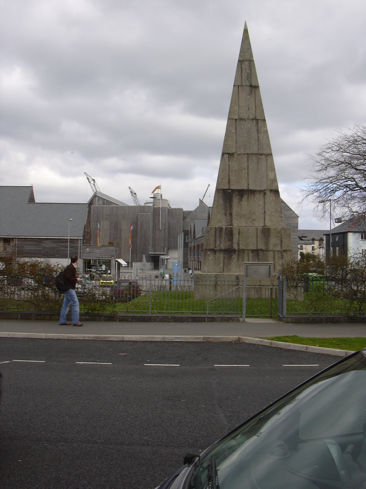 Killigrew Obelisk, Arwenack Street, opposite Arwenack Manor House, Falmouth. It is devoid of any inscription. Erected by Martin Lister (d.1745), of Staffordshire, who adopted the surname Killigrew in lieu of his patronymic,[1] having married in 1689 Anne Killigrew (d.1727), youngest daughter of Sir Peter Killigrew, 2nd Baronet (d.1705), of Arwenack. He died without progeny, being thus the last of the Killigrews. He wrote History of Killigrew Family (published in Journal of the Royal Institution of Cornwall, April 1871). "Local gossip has it that there are two glass bottles inside the monument, last seen when the obelisk was moved in the 1830s, containing something - perhaps a clue as to what Martin wanted you to think while you look at his monument" ( See oil painting depicting topping-out ceremony in Falmouth Art Gallery[2]